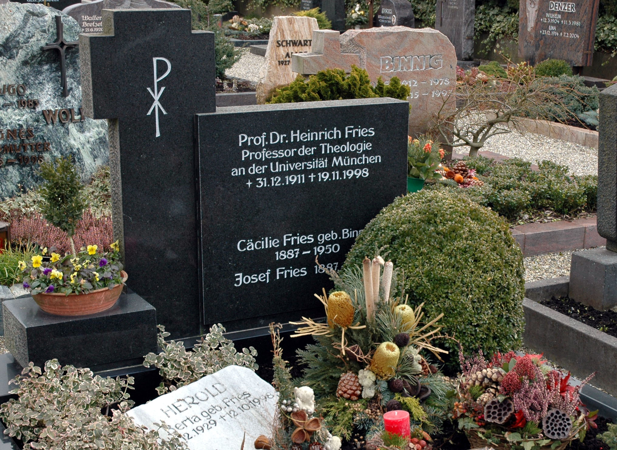 grave of Heinrich Fries in Oedheim (Germany).